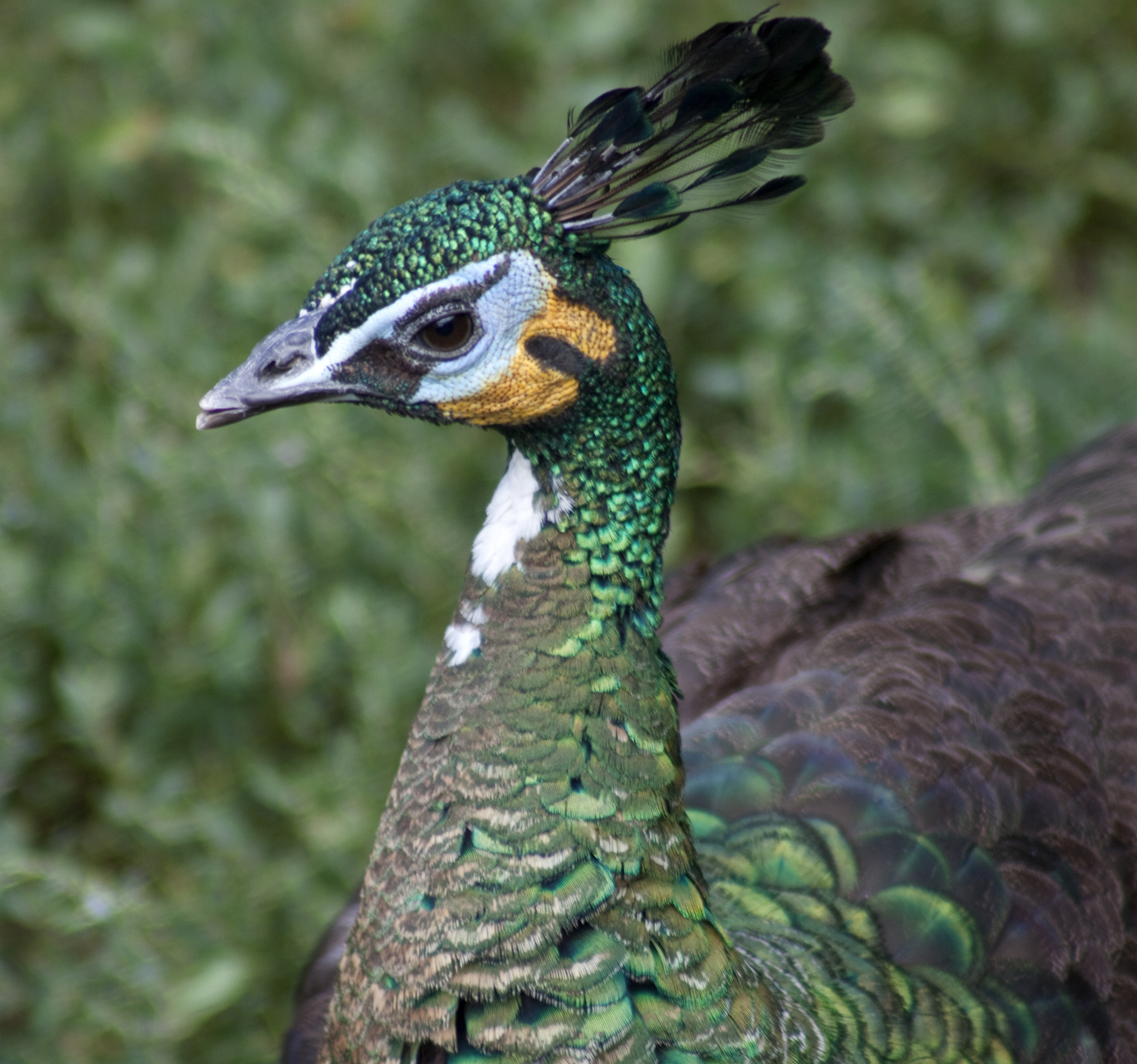 Peacock head